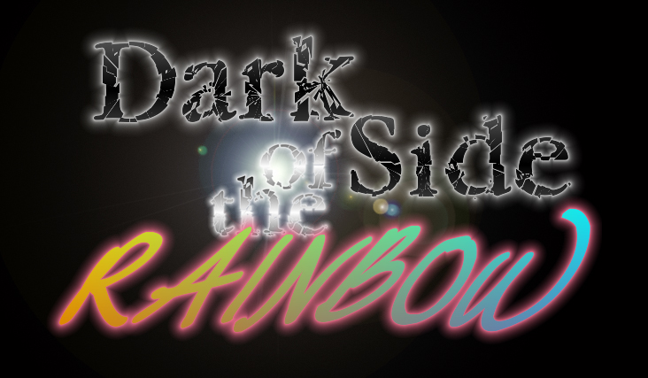 Dark Side of the Rainbow Project logo